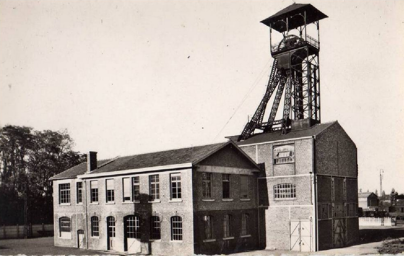 Compagnie des mines de Carvin, Pas-de-Calais, France.